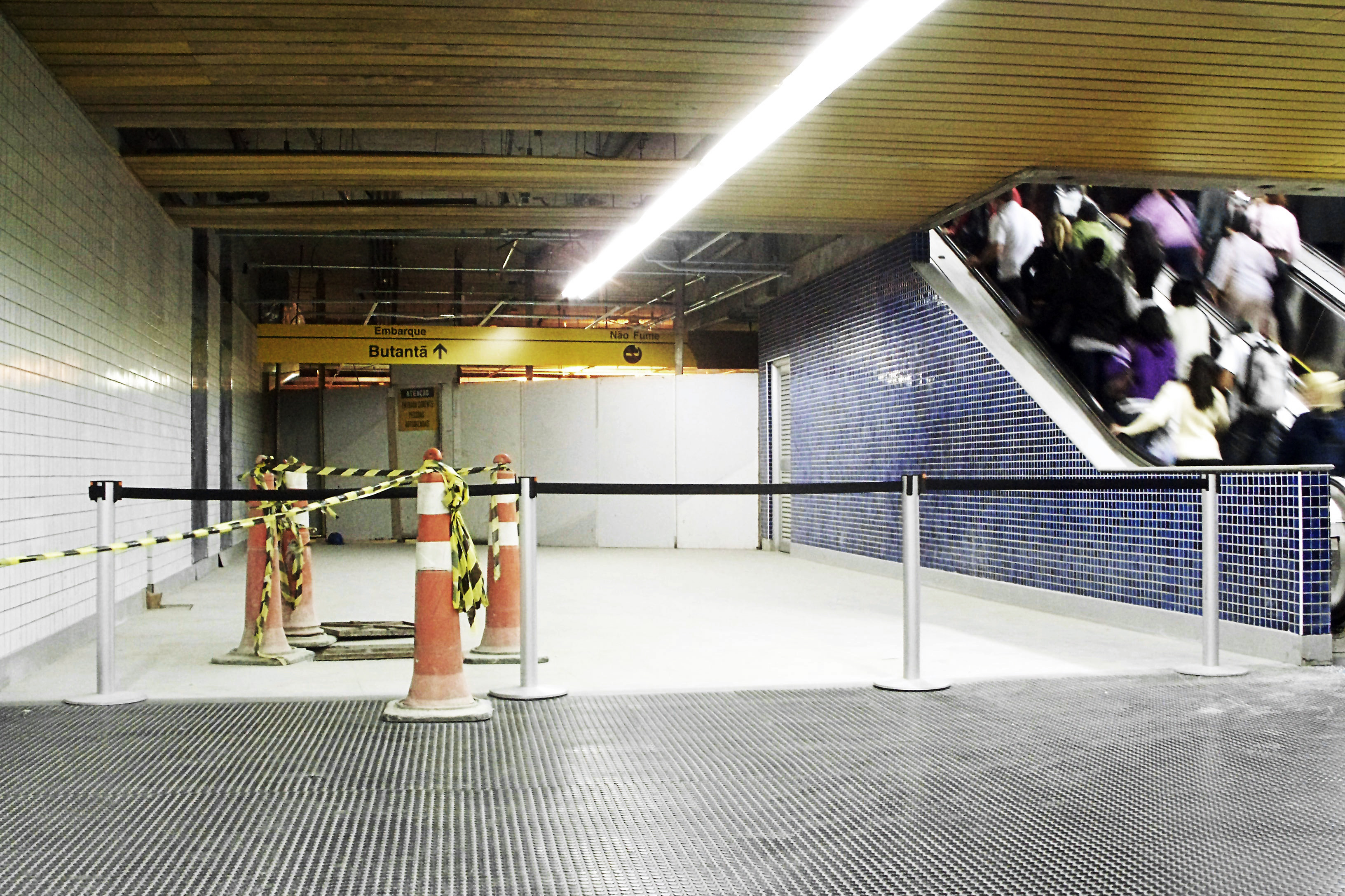 Future Line 4 platform at República station, in São Paulo, Brazil.